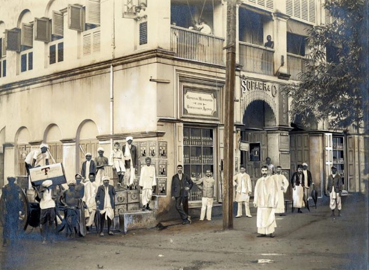 The Sofaers were one of the leading Jewish families in British Burma. David Sofaer served briefly as mayor and the beautiful Sofaer building still stands at the corner of Pansodan (Phayre Street) and Merchant Street. The photograph is of an early Sofaer business along Merchant Street.